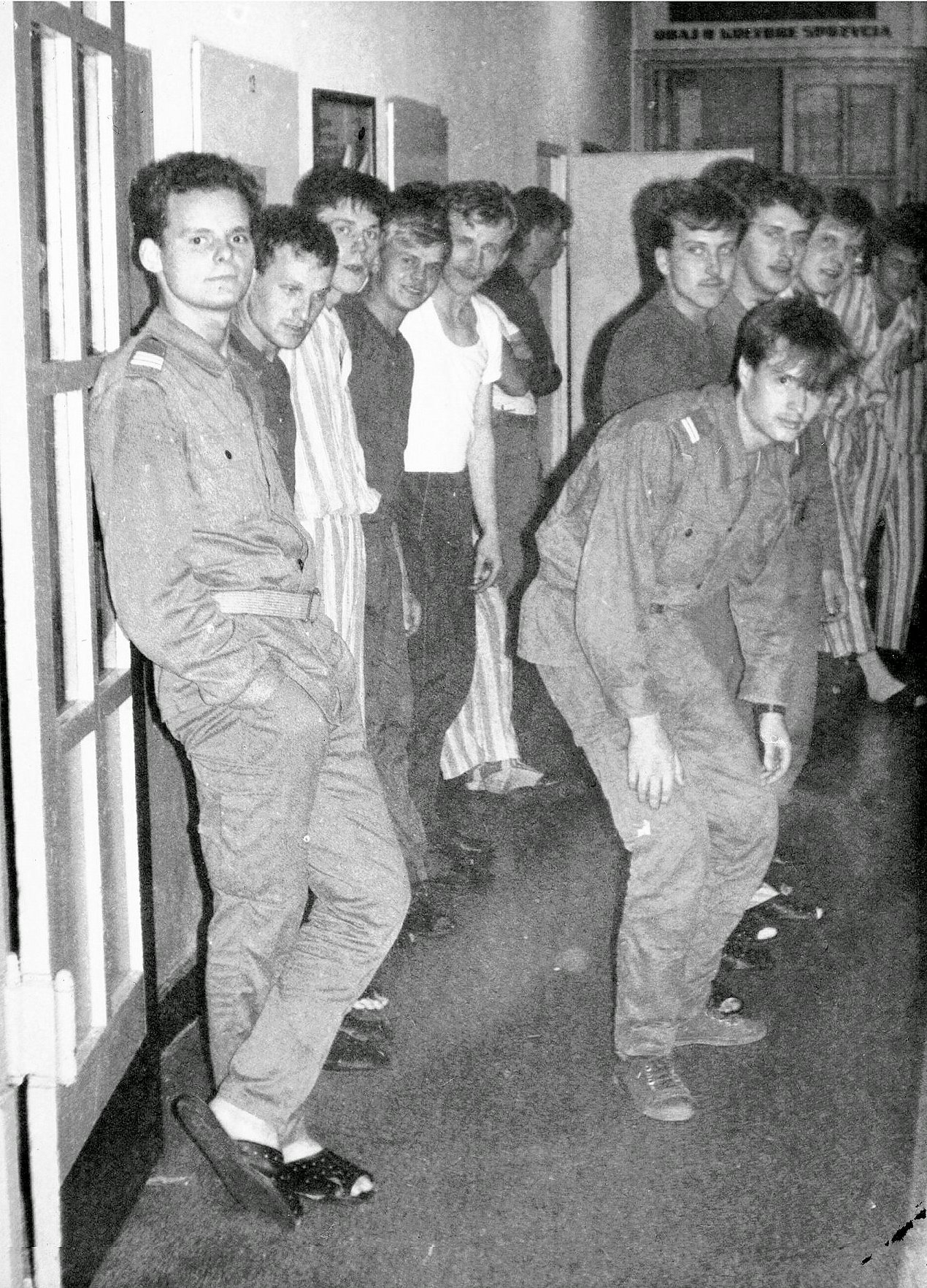 Border Protection Forces in Jastarnia